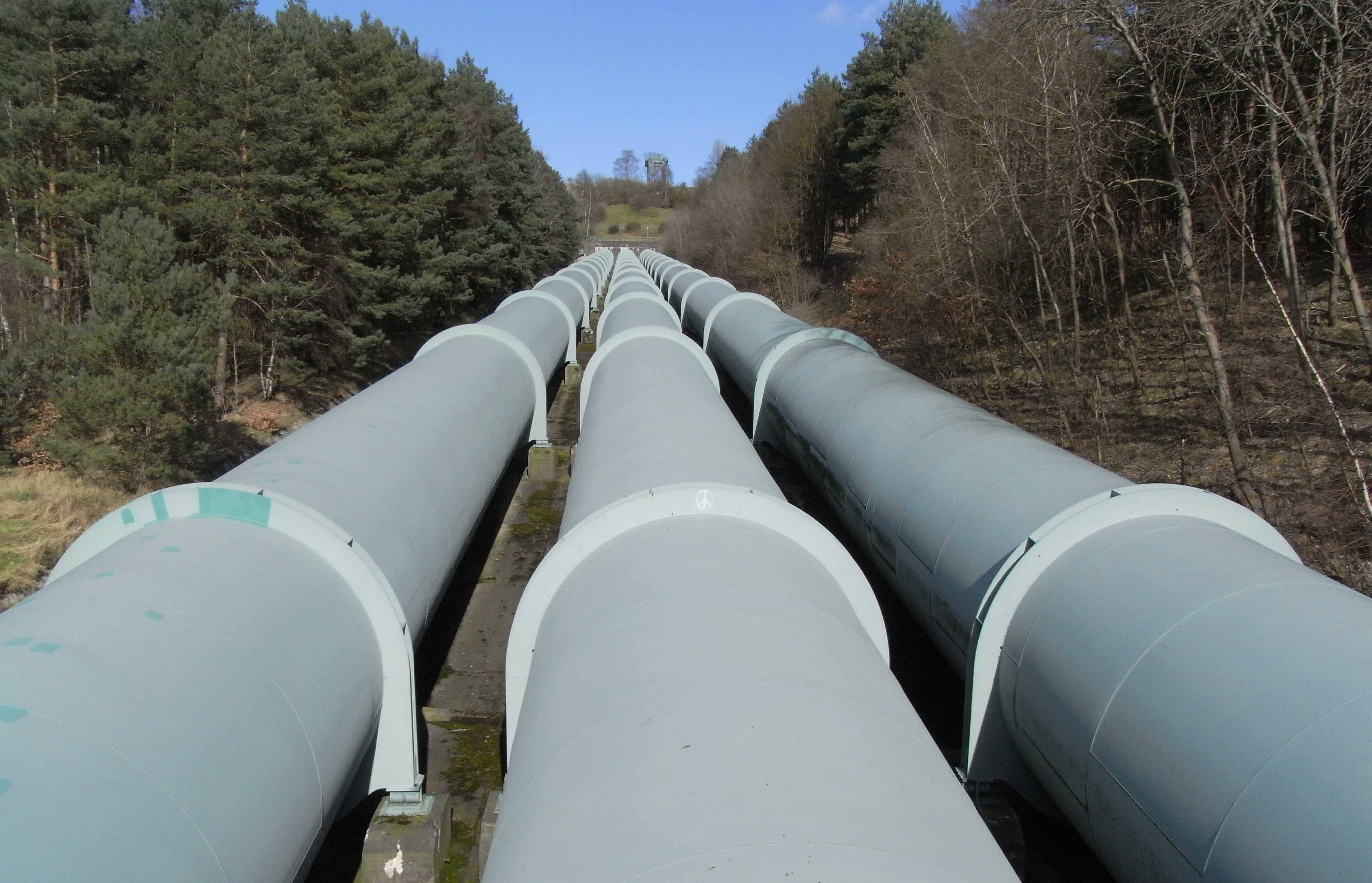 Piping of the pumped-storage hydroelectricity plant in Geeshacht, Schleswig-Holstein, Germany.